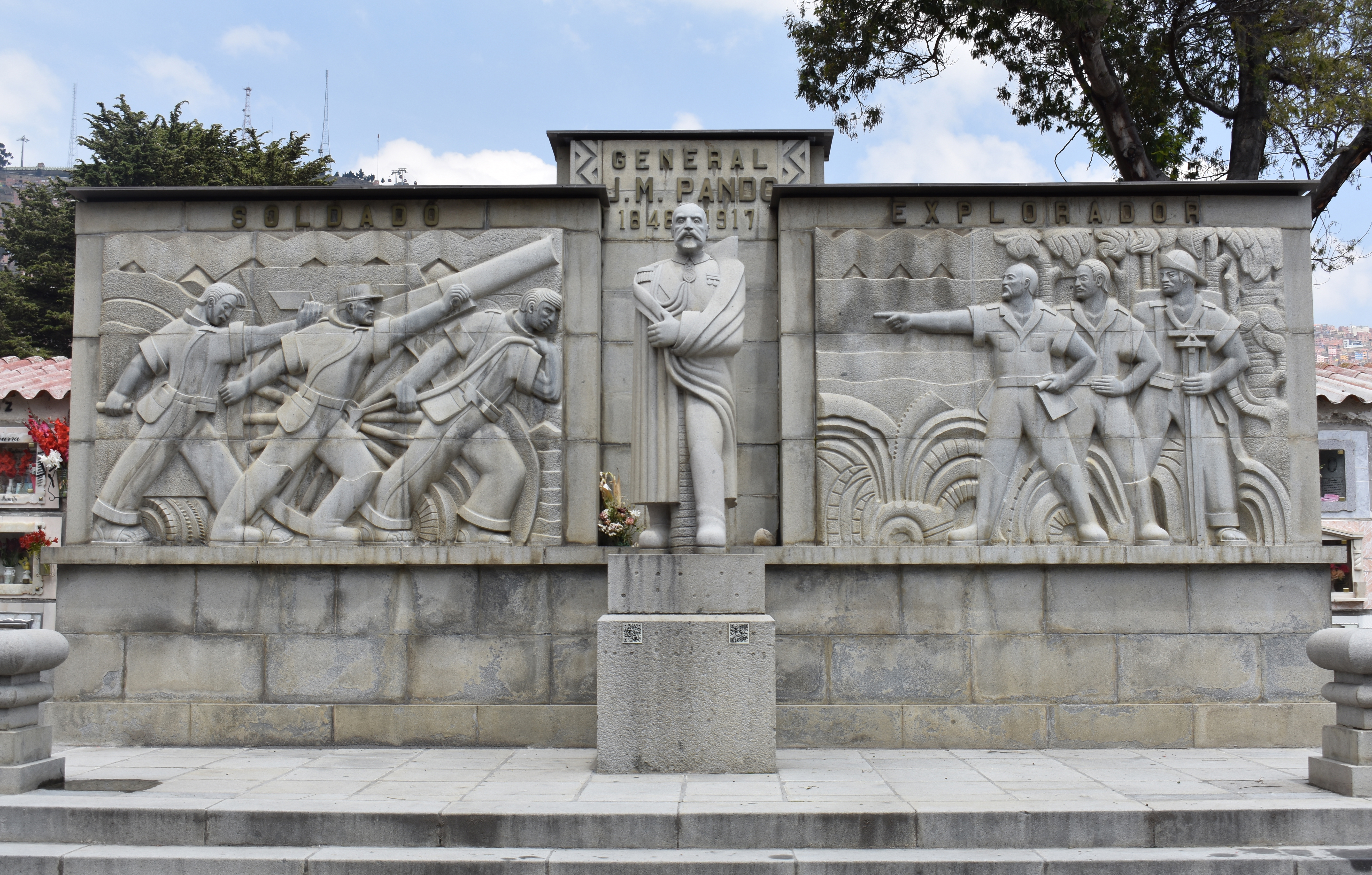 Funerary monument for General José Manuel Pando, president of Bolivia from 1899-1904